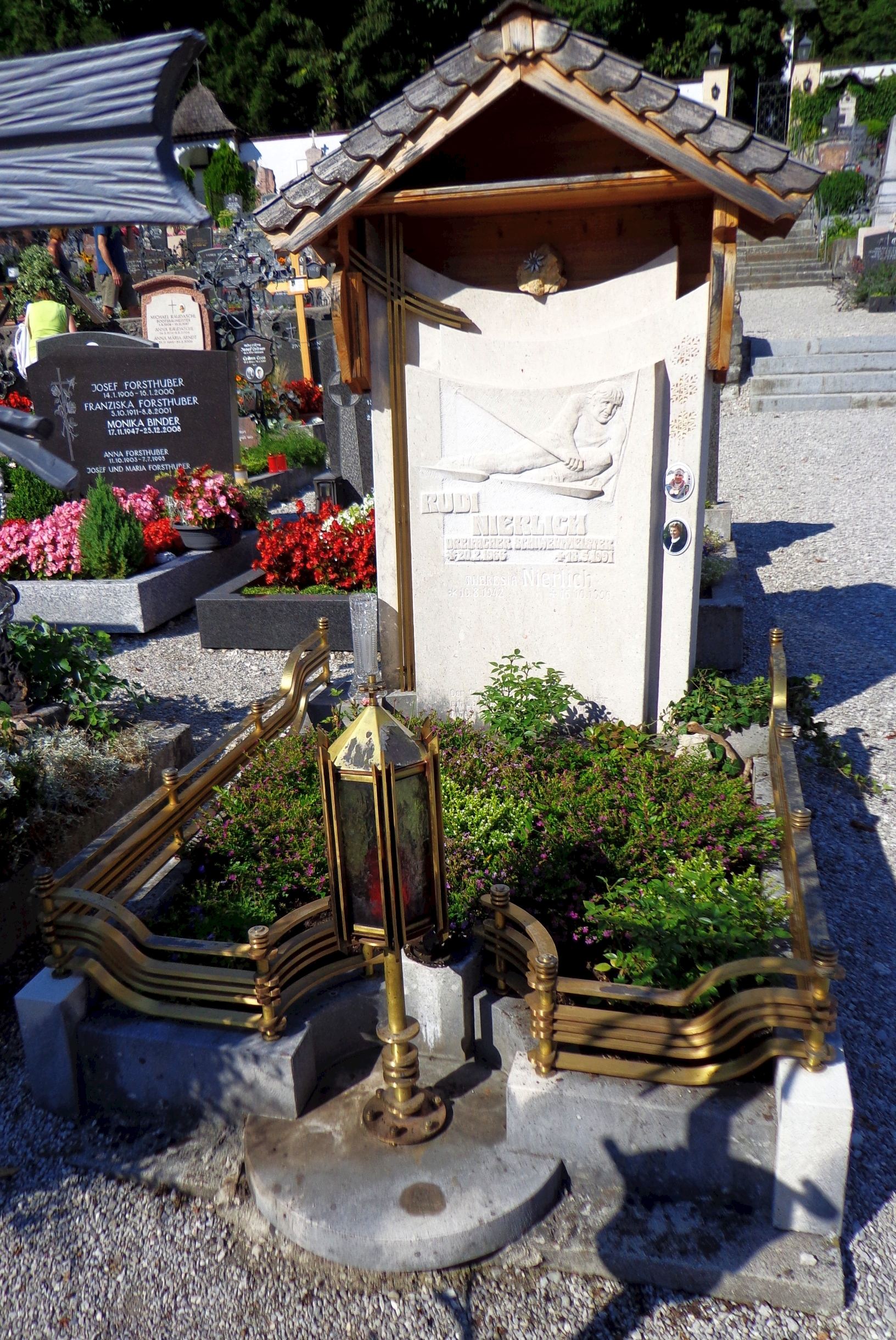 Rudi Nierlich's grave at St Wolfgang im Salzkammergut